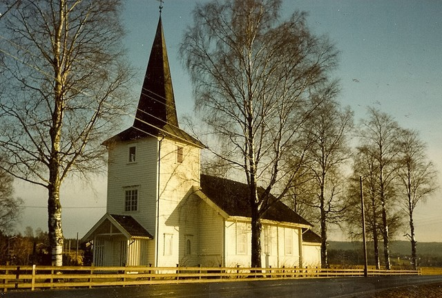 Auli church in Nes, Akershus, Norway.